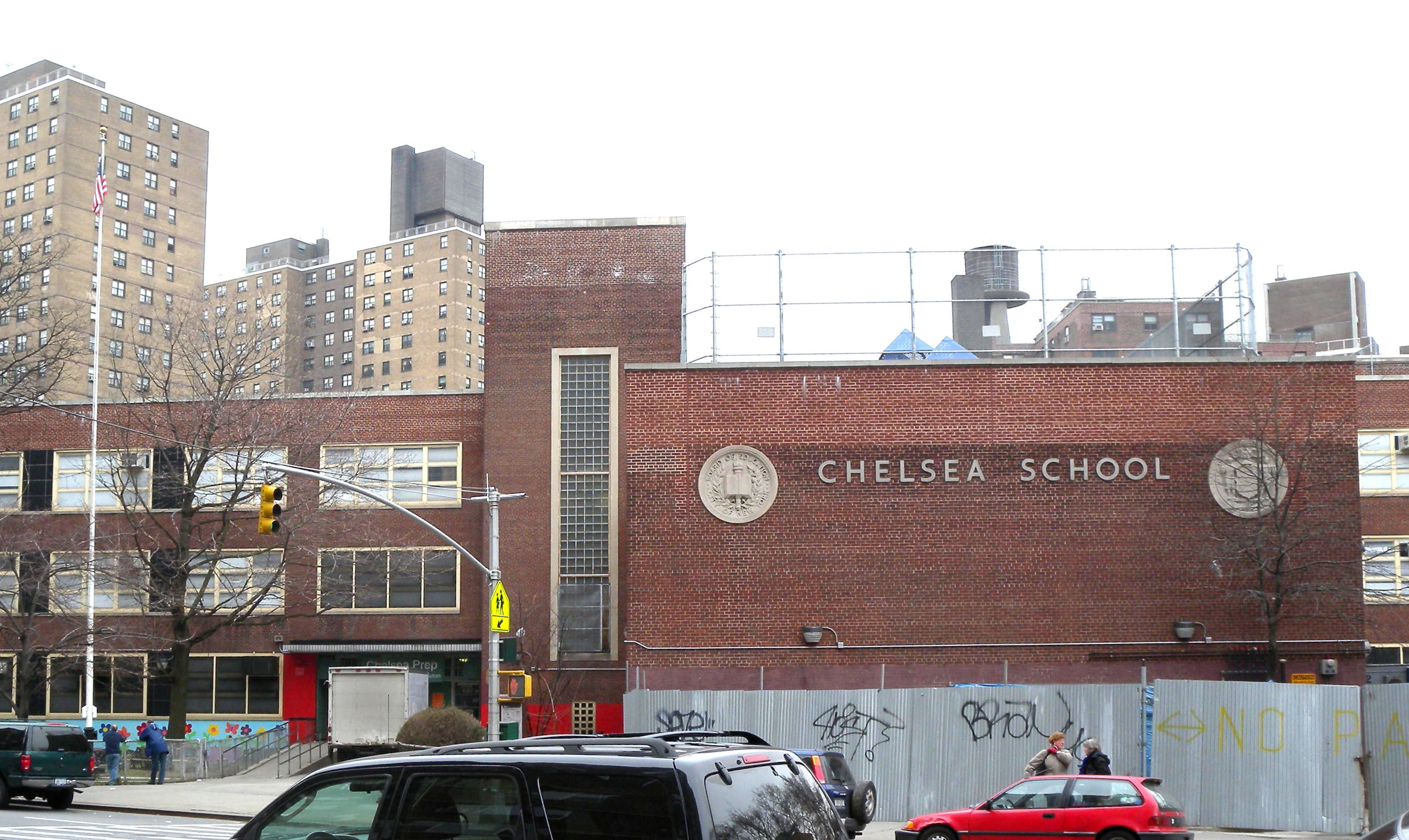 Looking west across 9th Ave and 27th St at Chelsea School on a cloudy afternoon.